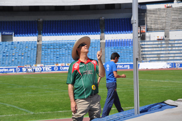 Awesome